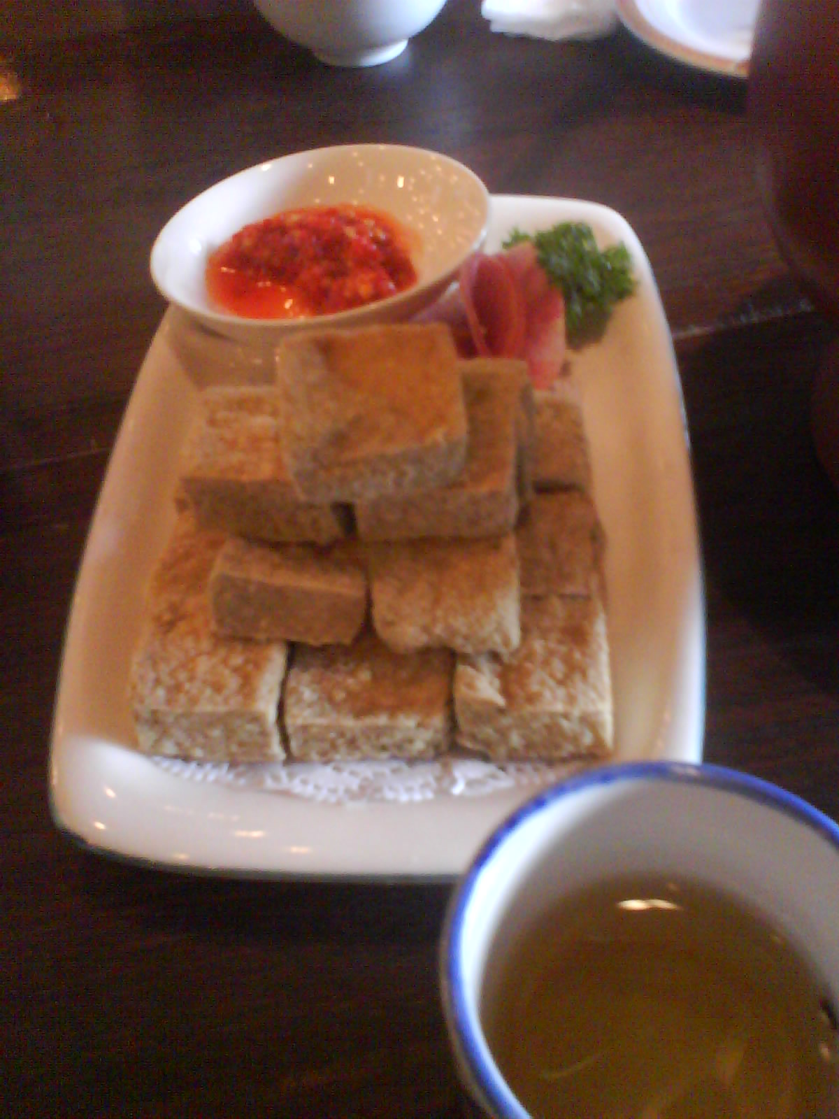 Stinky tofu in a Hangzhou good restaurant, in Beijing.